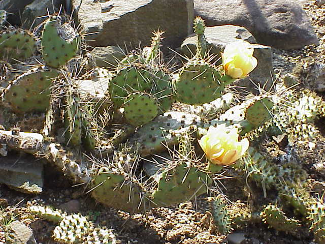 Species: Opuntia phaeacantha? Family: Cactaceae Image No. 1